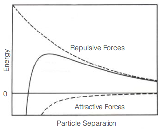 Energy vs. Particle Separation graph showing the repulsive forces, attractive forces, and their sum.